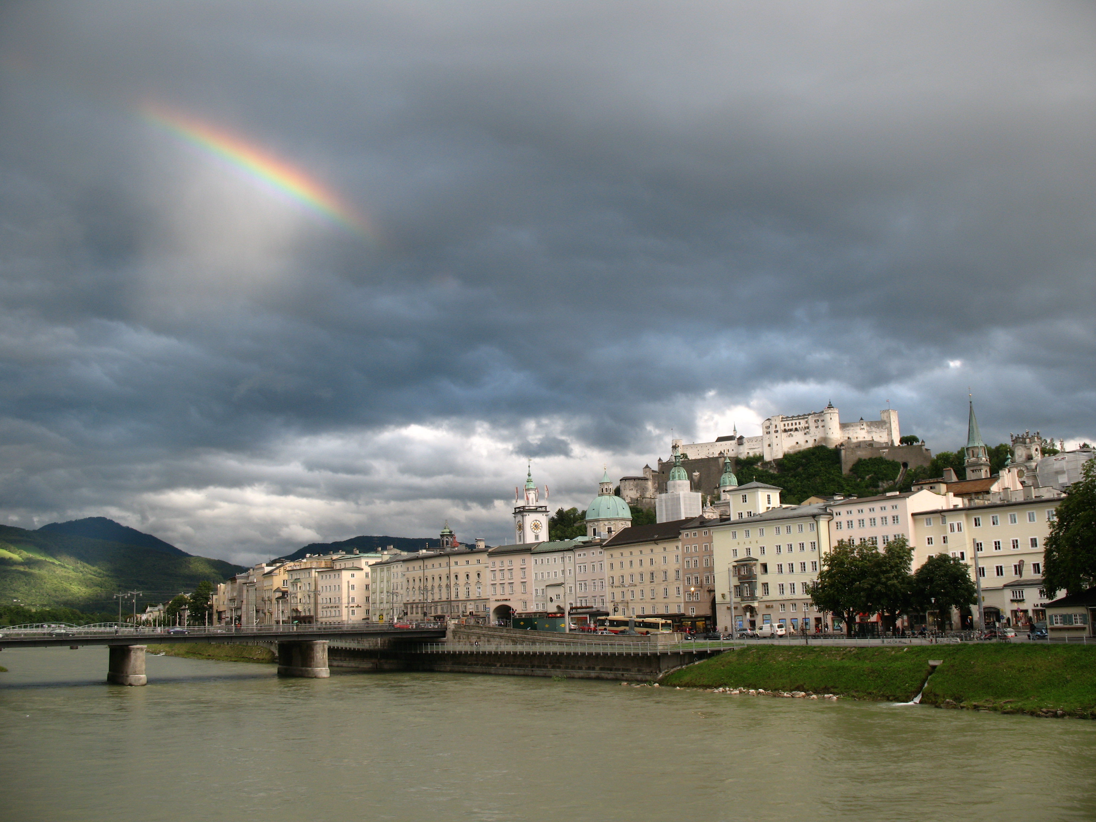 High Fortress over Salzburg, Austria